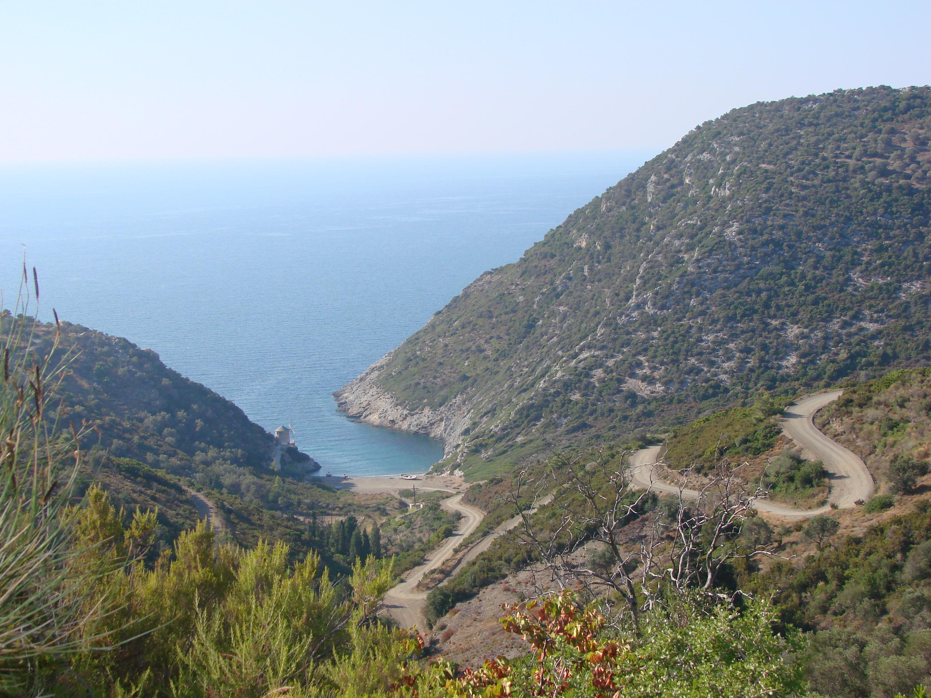 A cove on Alonissos